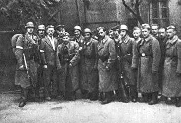 Warsaw Uprising: 2nd Platoon 7th company of "Kiliński" battalion